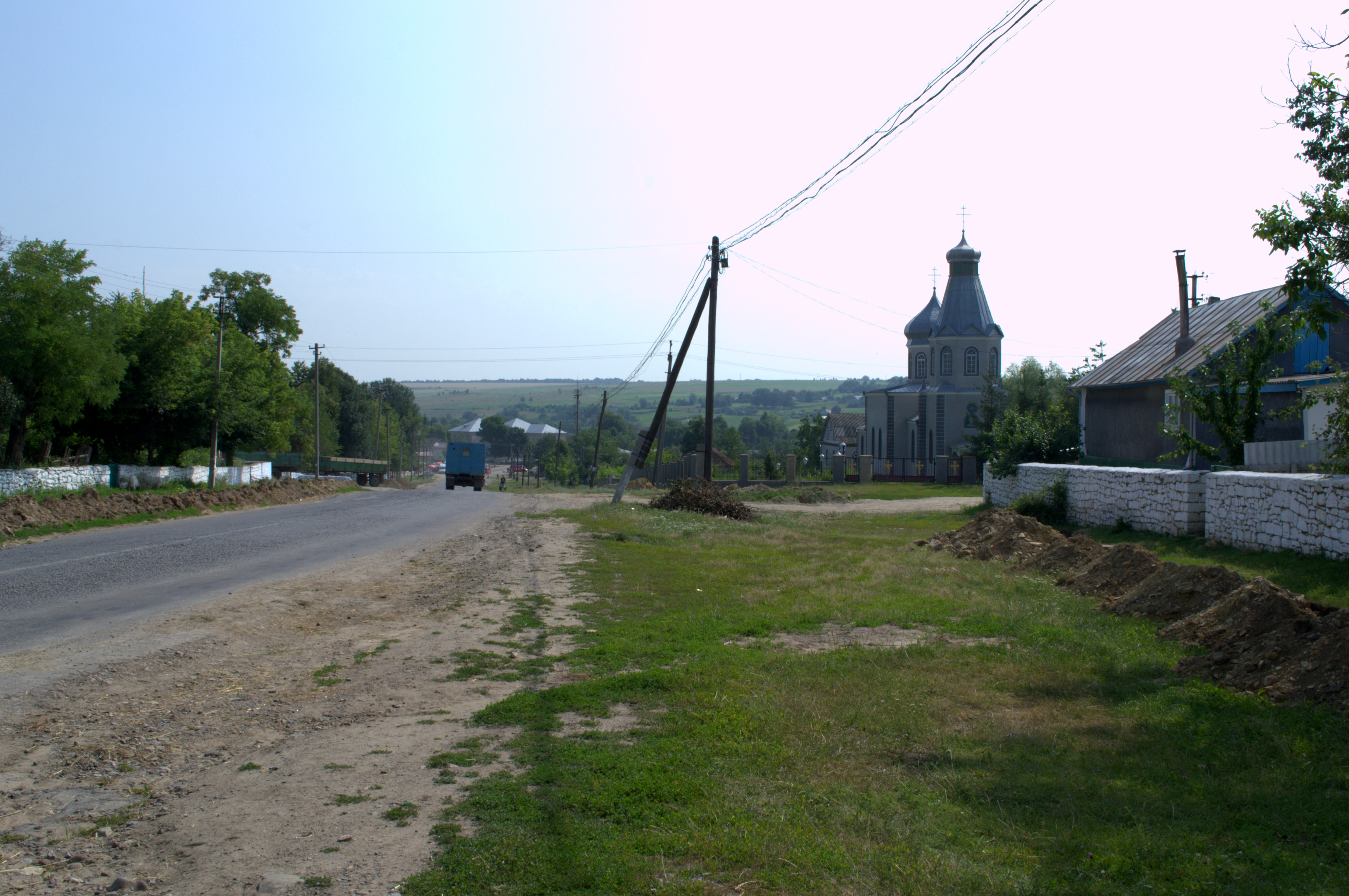 Khomenky village in Sharhorodskyi Raion